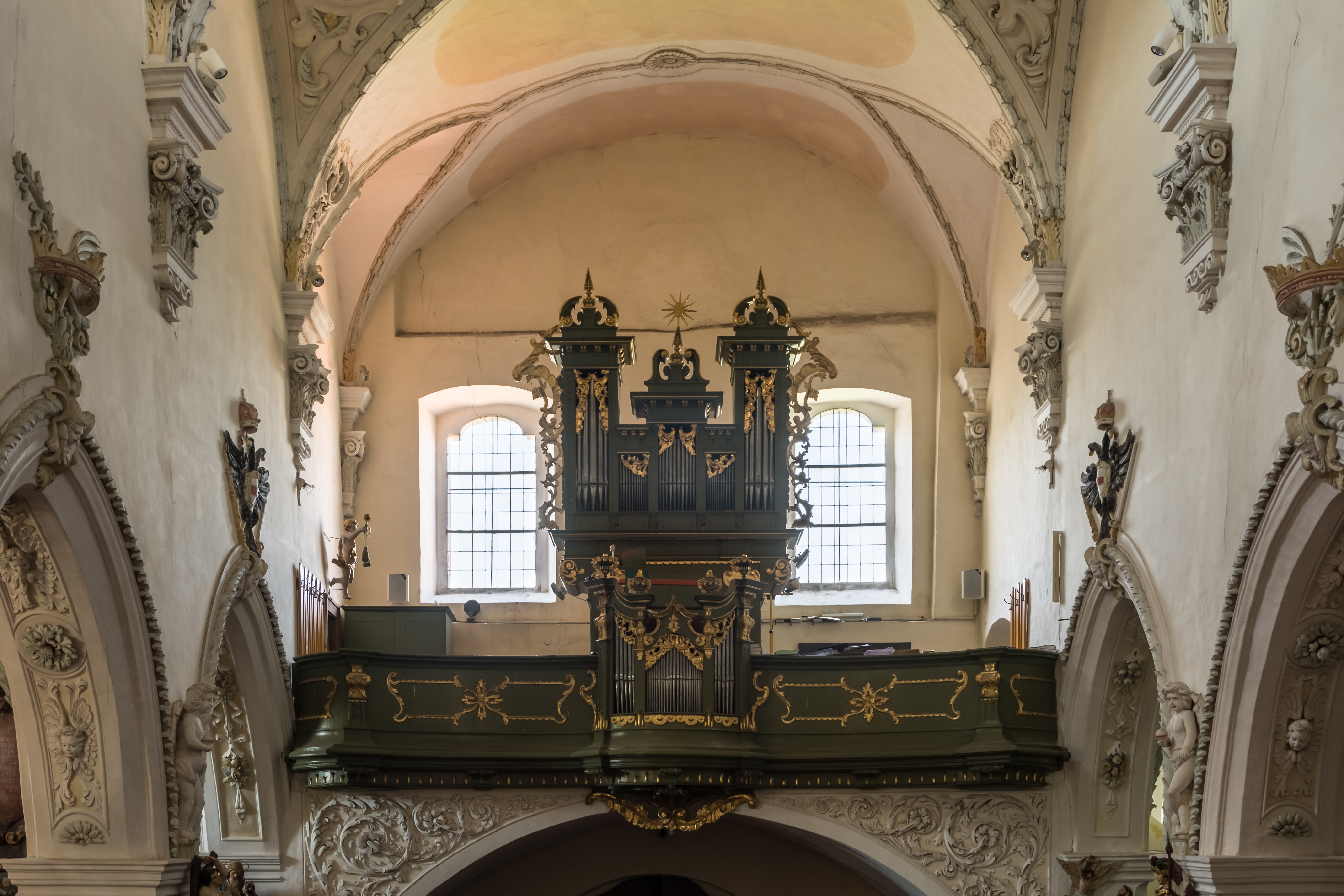 Organ of the collegiate church Ardagger (Lower Austria) by Johann Georg Freundt (1620)